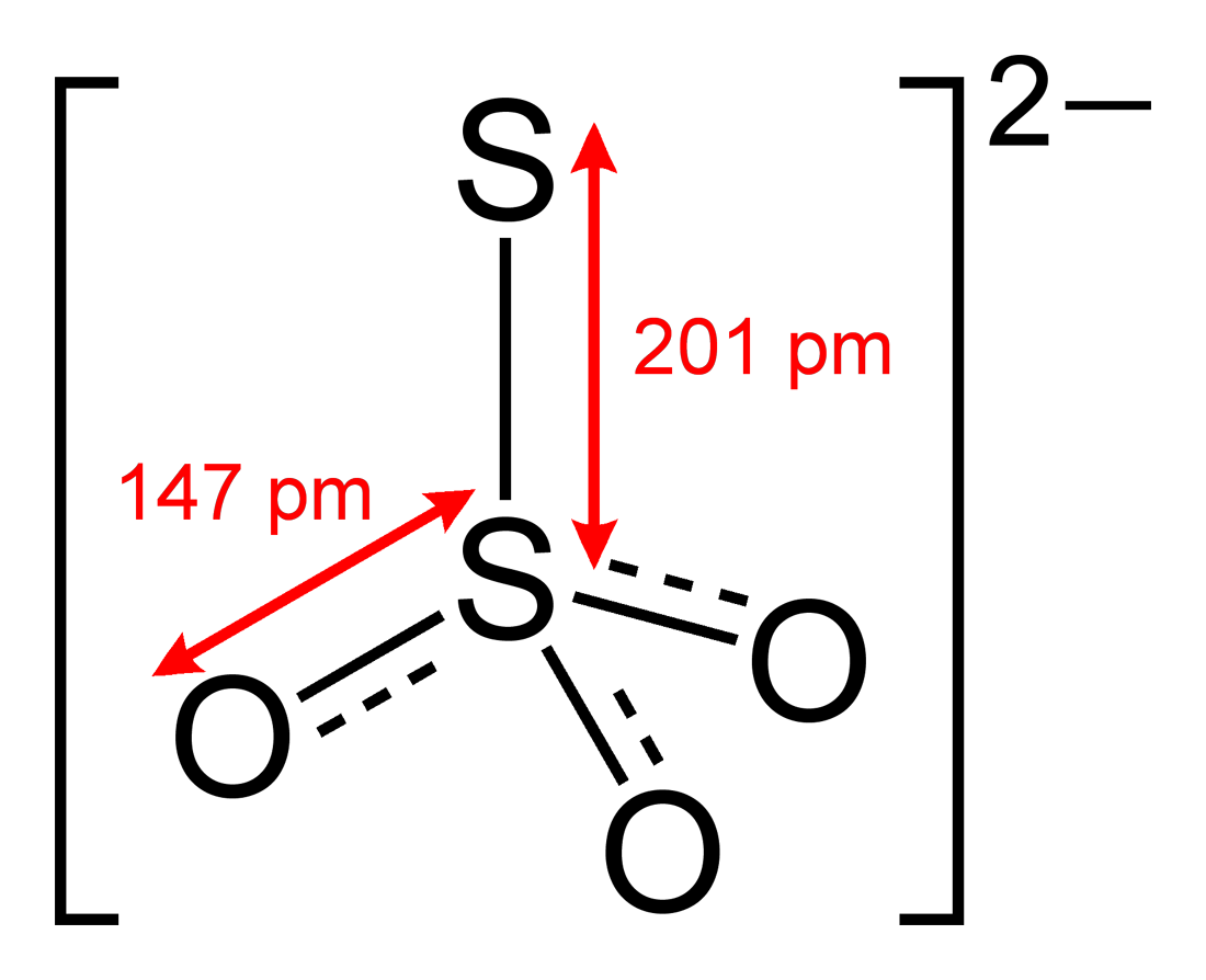 Structure of the thiosulfate ion